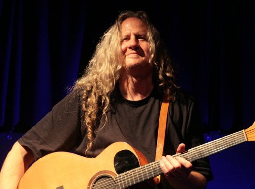 Guitarist Preston Reed on Stage in June, 2011.